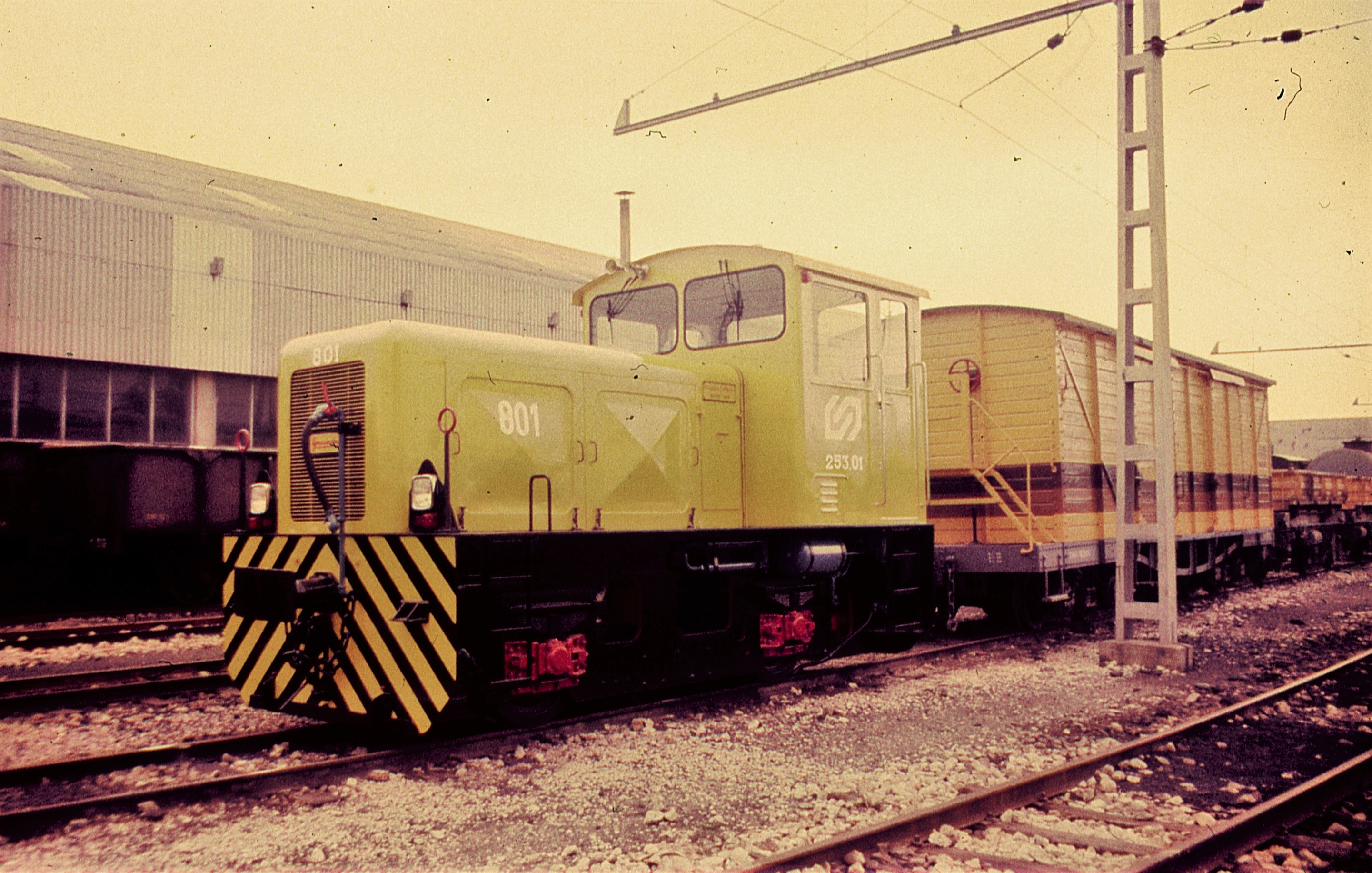 Diesel shunter 801 of Ferrocarrils de la Generalitat de Catalunya, as deparmental stock, captured at Martorell Enllaç workshops.